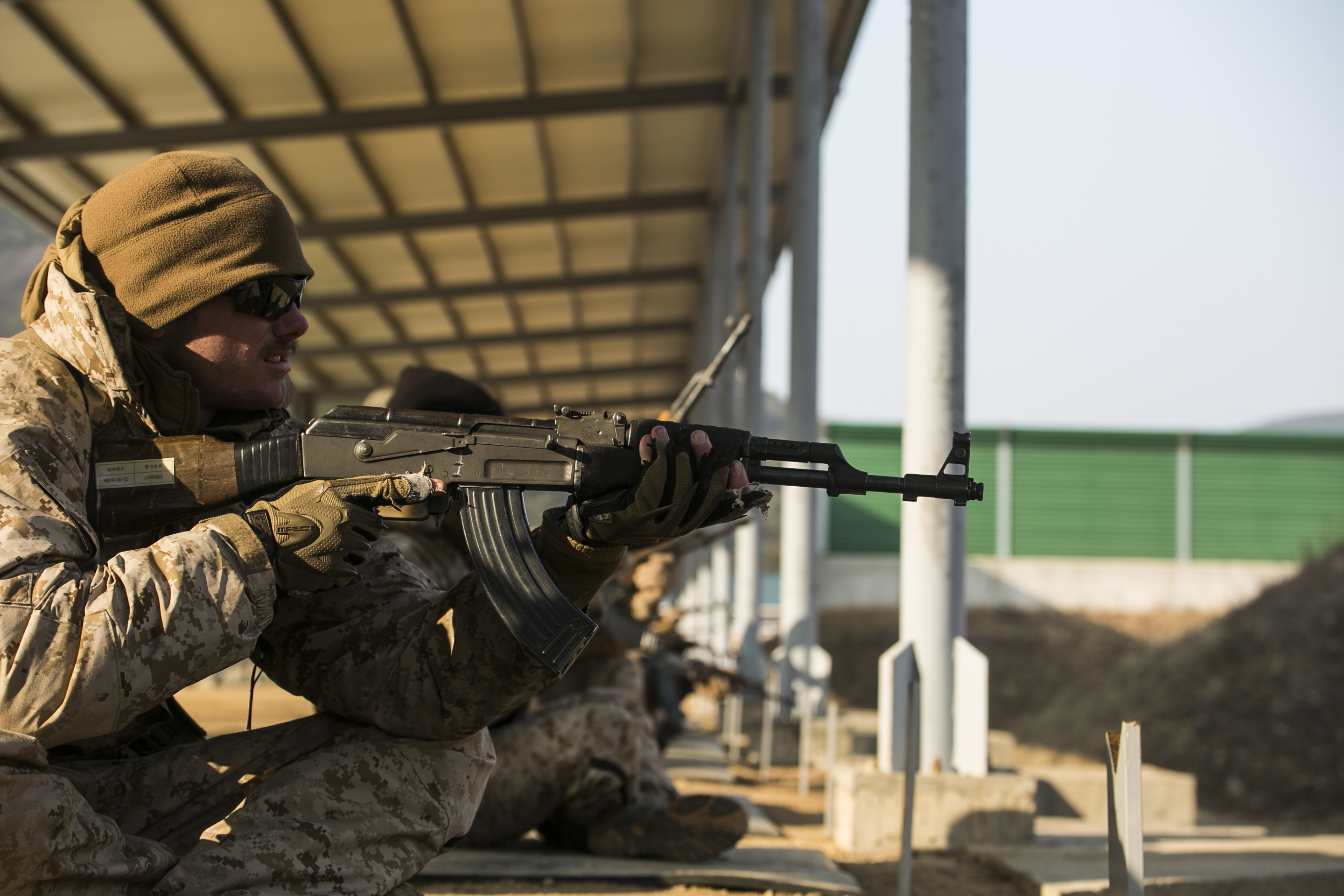 U.S. Marines had the unique opportunity to shoot a Democratic People’s Republic of Korea Type 58 assault rifle Feb. 5 during Korean Marine Exchange Program 15-3 at Gimpo, Republic of Korea. The U.S. Marines were given the unique opportunity to also test out the Daewoo K1 submachine gun, Daewoo K2 assault rifle, Daewoo K5 handgun, the K201 40mm grenade launcher and the Daewoo K14 sniper rifle. The U.S. Marines are reconnaissance men with Alpha Company, 3rd Reconnaissance Battalion, 3rd Marine Division, III Marine Expeditionary Force. (U.S. Marine Corps photo by Cpl. Tyler S. Giguere/Released)